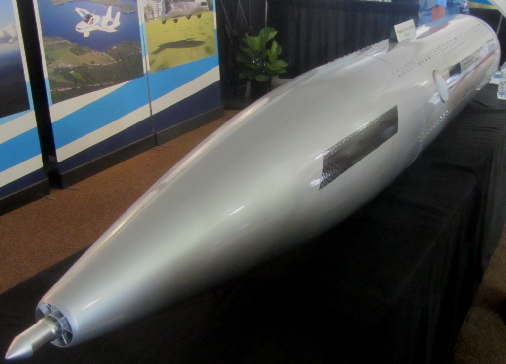 Terrafugia TFX Pod